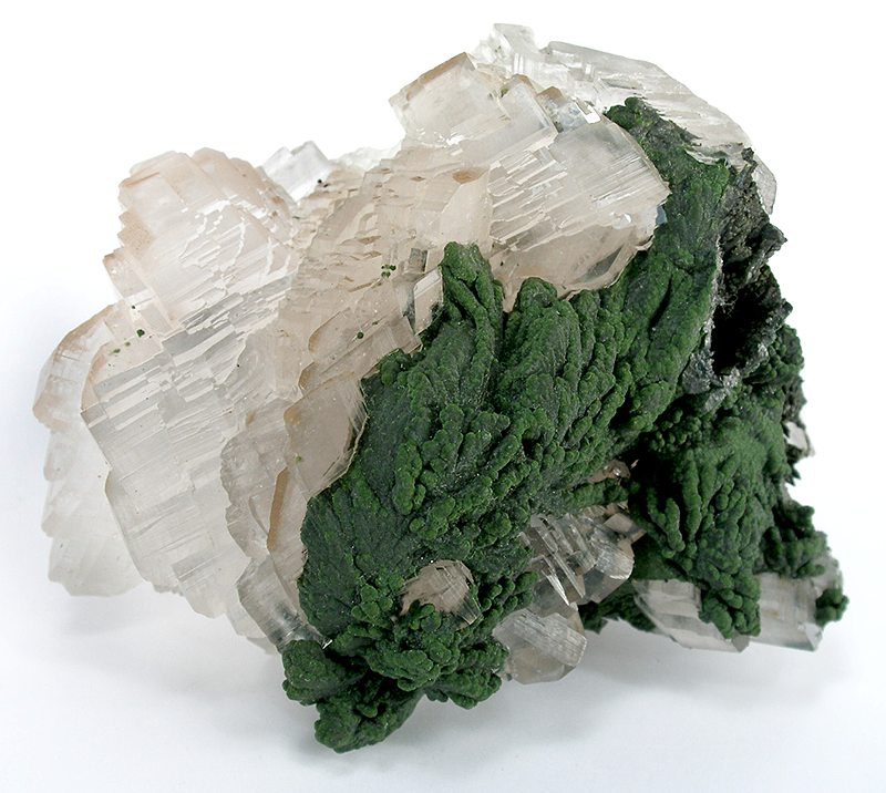 Calcite, Mottramite Locality: Tsumeb Mine (Tsumcorp Mine), Tsumeb, Otjikoto (Oshikoto) Region, Namibia (Locality at ) Size: small cabinet, 8.8 x 7.3 x 4.3 cm Calcite with Mottramite A stunning specimen in person, the pics here do not do it justice! Colorless, glassy and gemmy rhombs of calcite, to 3 cm across, are partially covered by velvety, rich green mottramite. The mottramite hangs like drapery down the calcite cluster and in person looks much more "lively" (for lack of a better word), than the flat green smear it looks like in the photos here. The color contrast is wonderful as is the quality of the specimen overall. This is the classic Tsyumeb calcite style, but so interesting overall, it really jumps out in person.